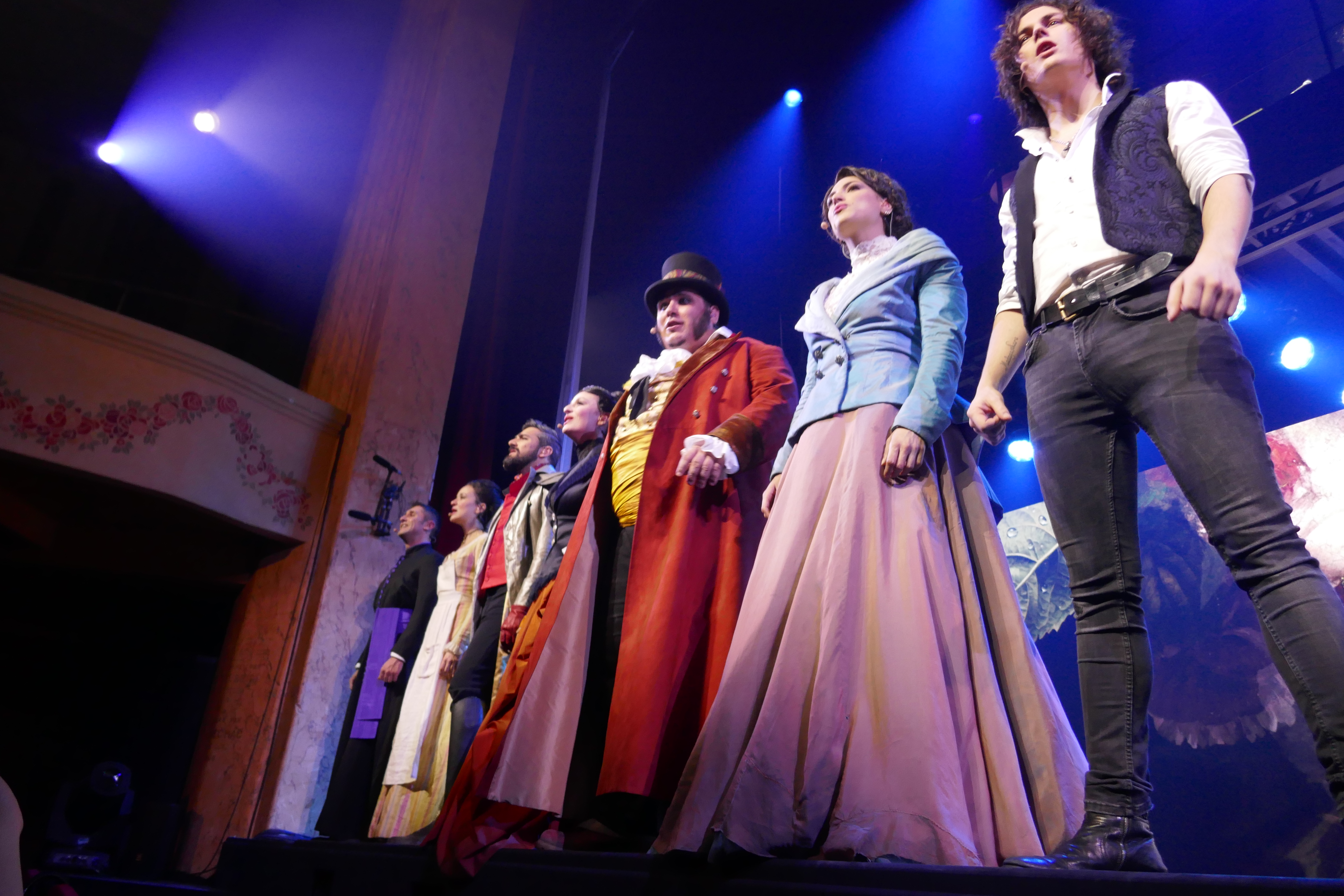 Le Rouge et le Noir musical troupe (1/2) Left to right : Fred Colas, Cynthia Tolleron, Patrice Maktav, Elsa Pérusin, Yoann Launay, Haylen, Côme